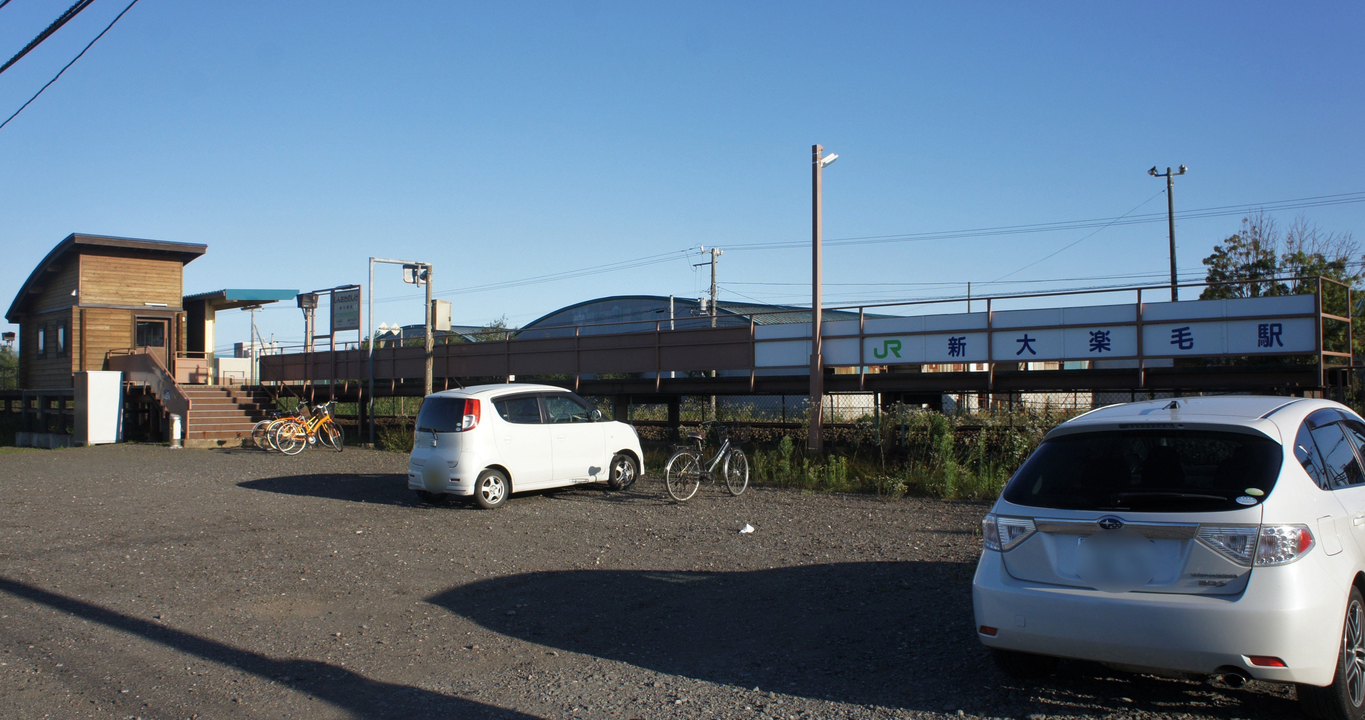 Appearance of JR Nemuro-Main-Line Shin-Otanoshike Station